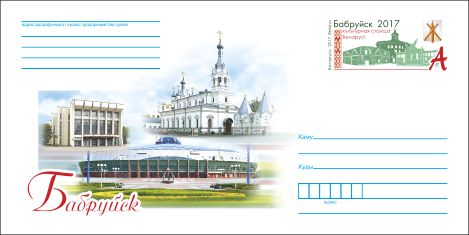 Babrujsk — the cultural capital of Belarus 2017.